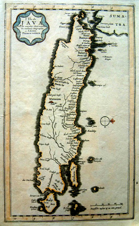 Historical map of Java, Indonesia